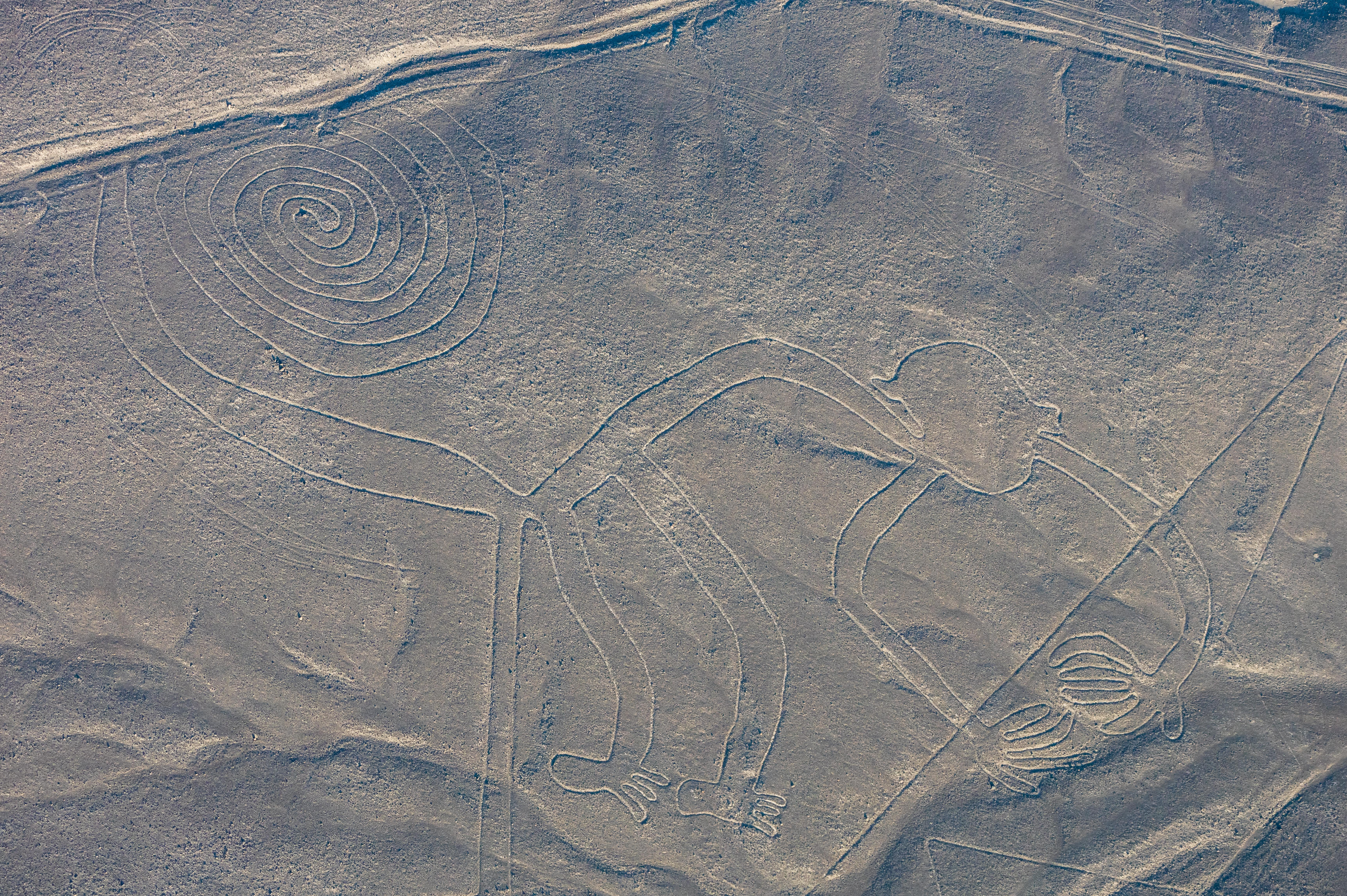 Aerial view of the "Monkey", one of the most popular geoglyphs of the Nazca Lines, which are located in the Nazca Desert in southern Peru. The geoglyphs of this UNESCO World Heritage Site (since 1994) are spread over a 80 km (50 mi) plateau between the towns of Nazca and Palpa and are, according to some studies, between 500 B.C. and 500 A.D. old. This place is a UNESCO World Heritage Site, listed as Nazca Lines. Nazca Lines: monkey, Nasca, Peru